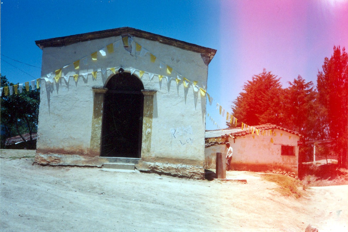 Ayutla, iglesia, Oaxaca, Mixe